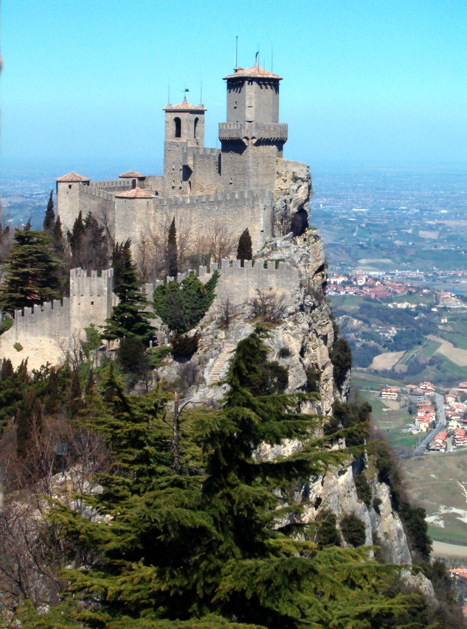 San Marino Castle, Republic of San Marino.